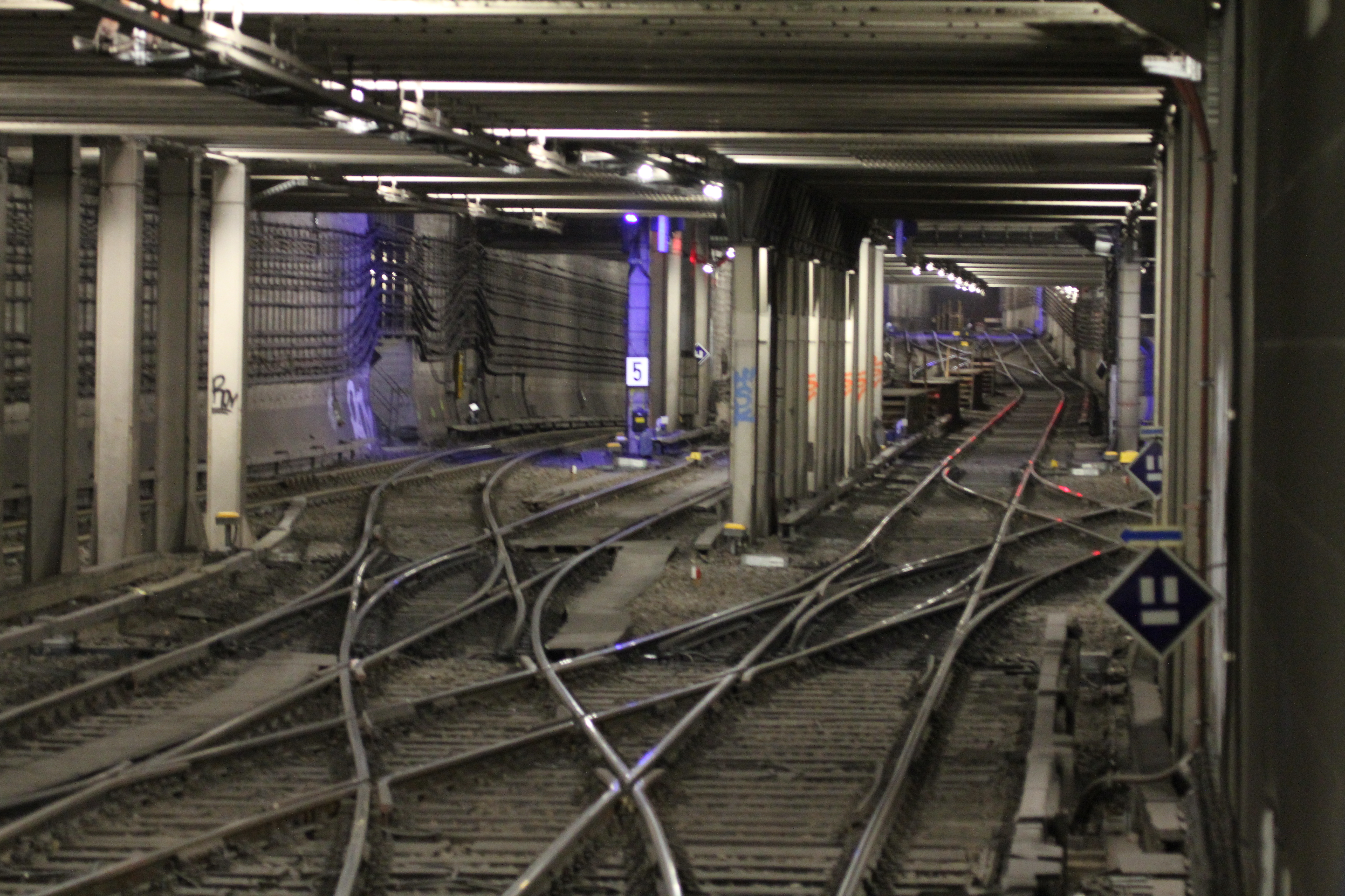 Looking into the North-South-Tunnel of the Berlin S-Bahn from the northbound platform of the Potsdamer Platz S-Bahn station. This was planned as the railway yard for S-Bahn trains using the Southern Ring hairpin bend, which turned at the above ground Postdamer Bahnhof (actually the separate "Potsdamer Ring- und Vorortbahnhof", on the Eastern edge of the main line station). What is seen here becomes a two-storeyed tunnel, with the actual tunnel leading north to the Brandenburg Gate station, in the lower level, coming from the outer tracks, and this staging area in the upper level. This upper level ends at Behrensstraße, and is designed in a way to be continued towards the North-West, the current Berlin Central Railway Station (Hauptbahnhof), or back then, the Lehrter Bahnhof